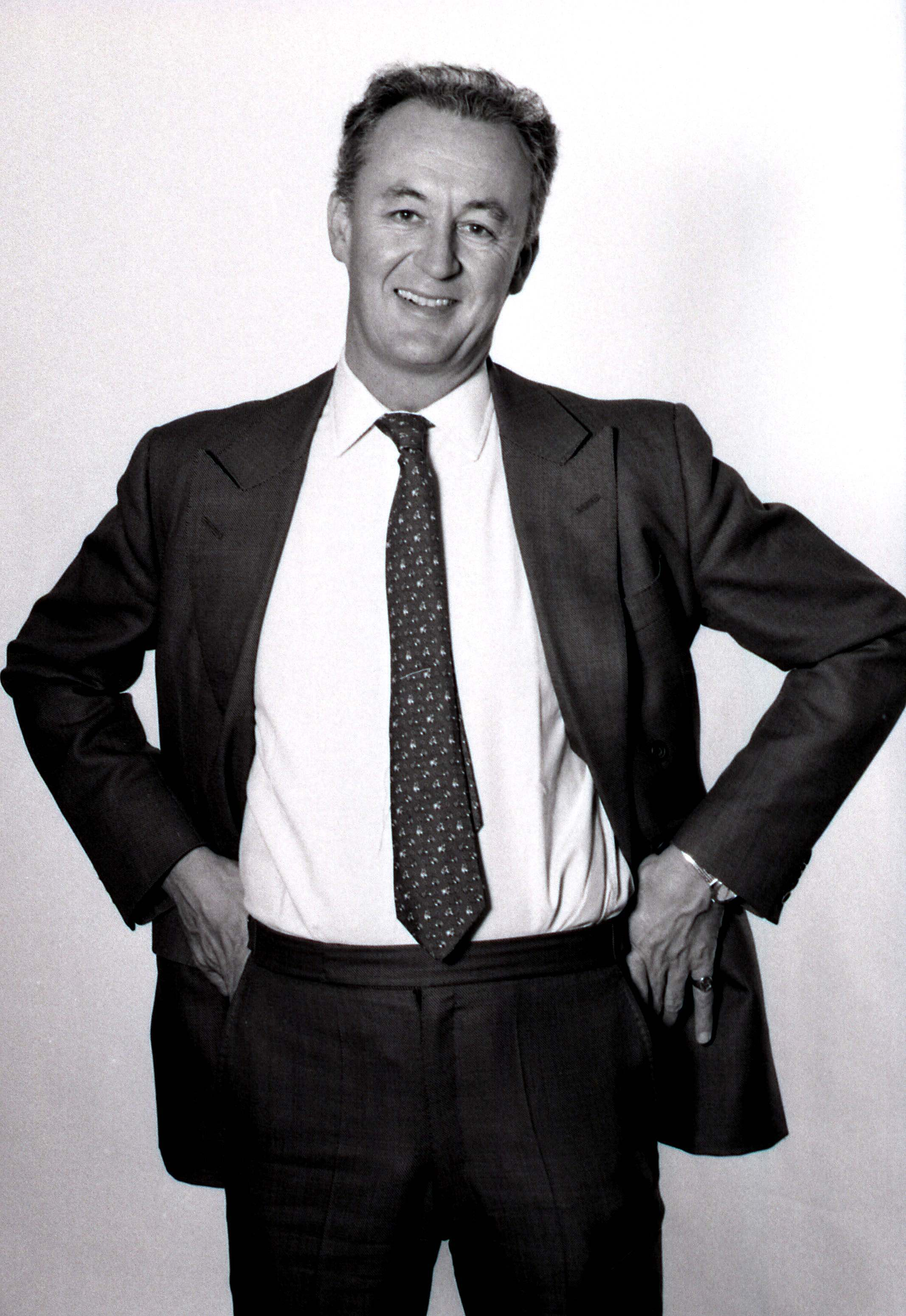 The 10th Duke of Roxburghe (black & white)